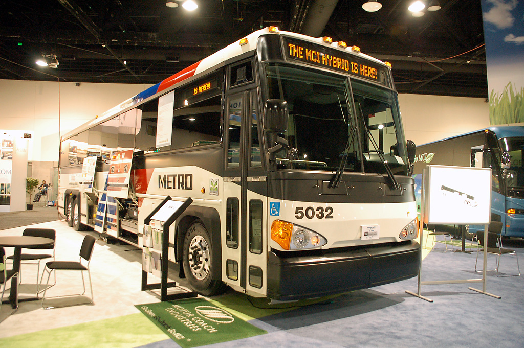 2008 MCI D4500CTH hybrid commuter coach of Houston METRO at the APTA Expo 2008, San Diego, California.